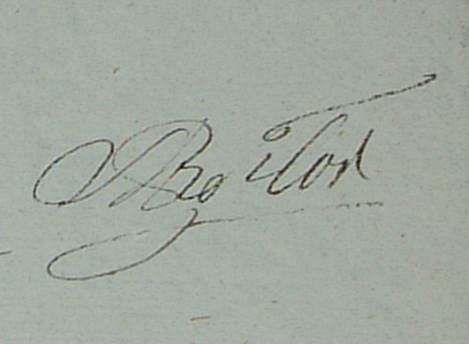 Signature of Martin Richard Flor